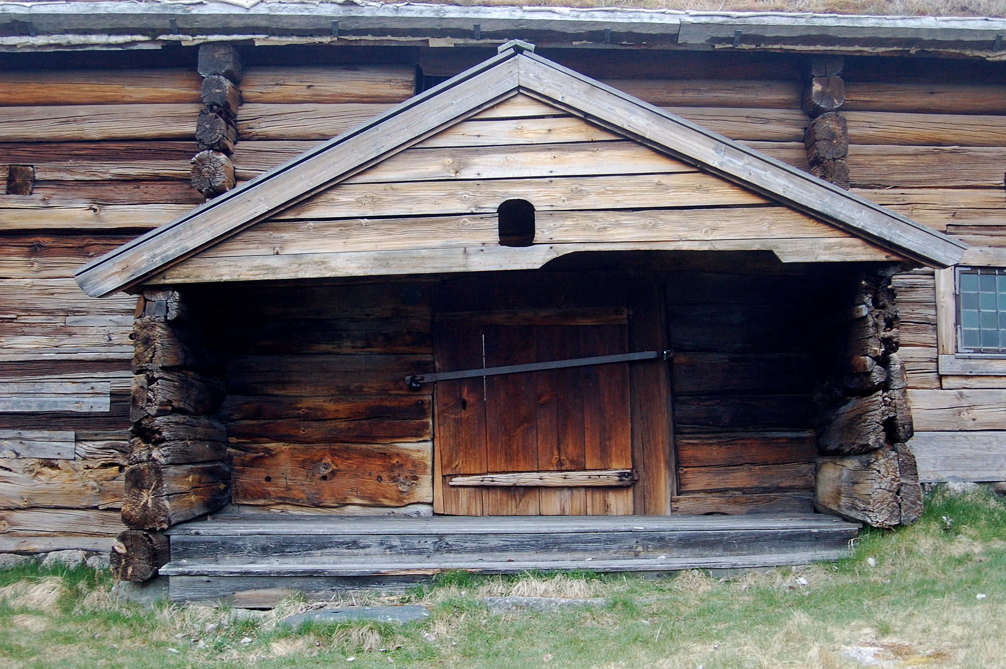 The cottage called Kullängsstugan was bilt in 1603 by Niels the Sawyer, who lived on the farm at the time. The year it was built is carved into one of the roof ridges. The building is unusual because it is so old, and because it has looked almost the same for 300 years. It was unusually large already at the time it was built. Notice the enormous logs. Kullängsstugan was inhabited up until 1936, when it was donated to Örebro läns museum. Kullängsstugan was destignated as a historic building in 1970.